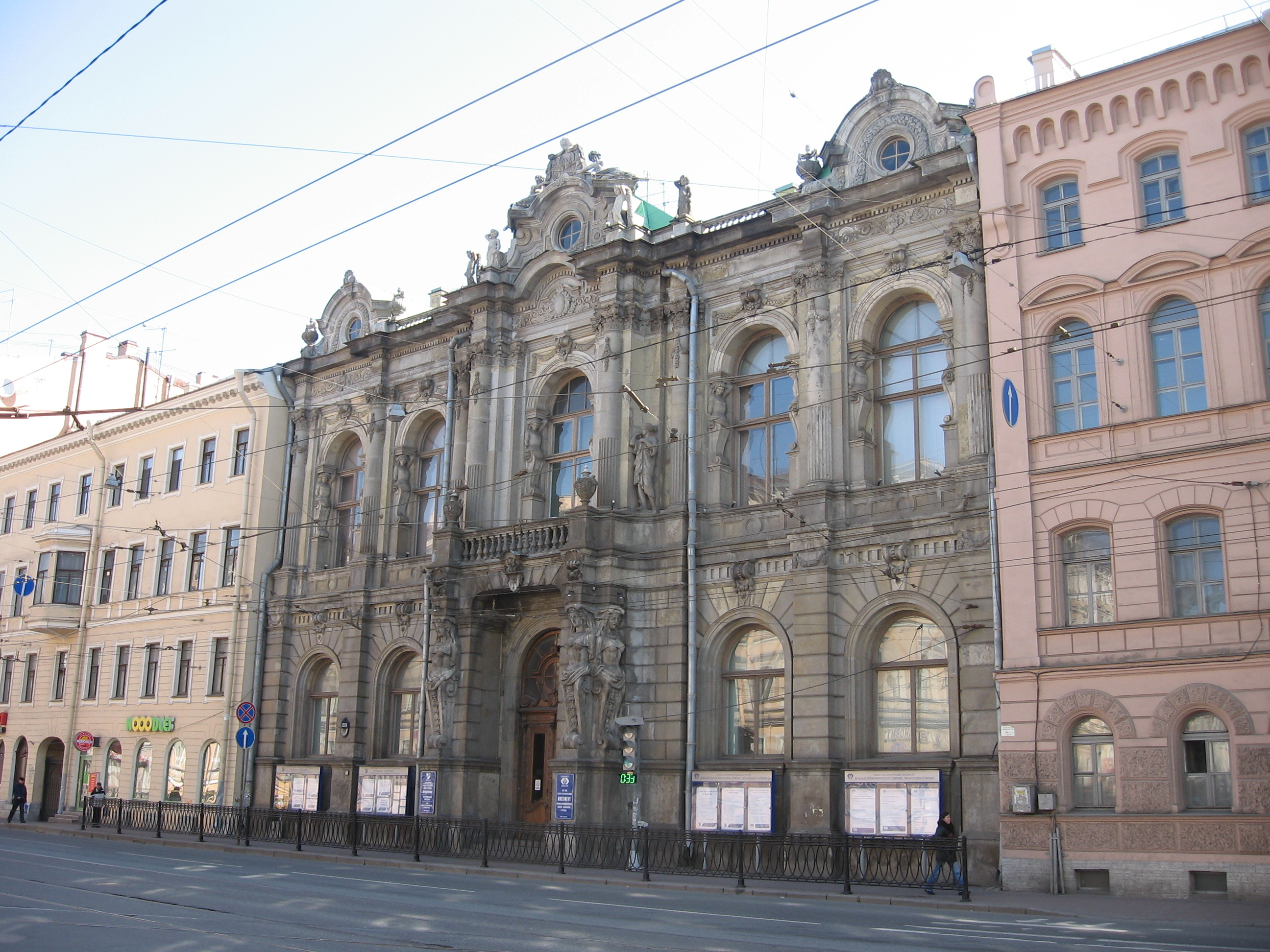 Liteyny prospekt, House of princess Yusupov. Architect Ludwig Bohnstedt, 1852-1858